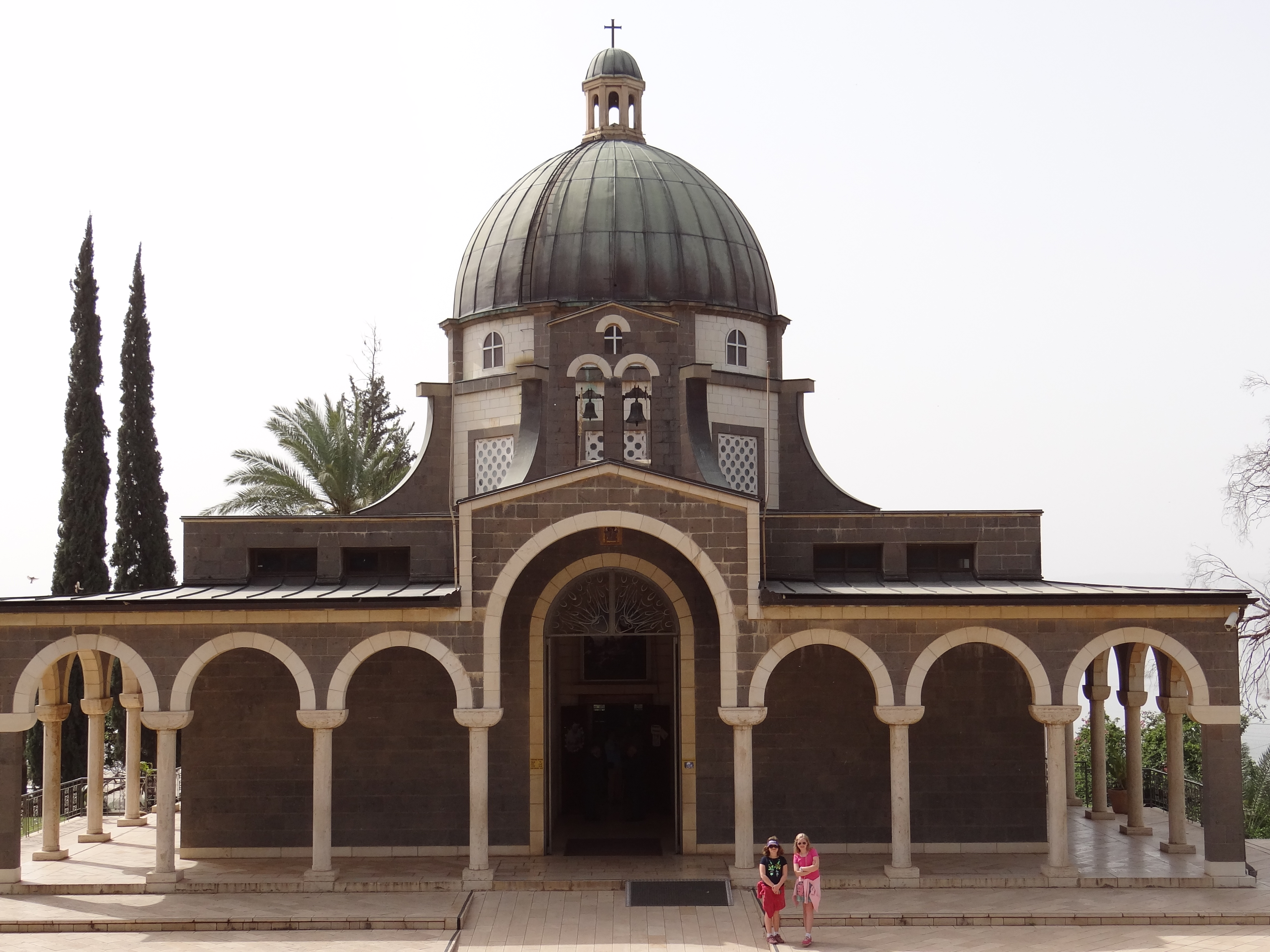 Church of the Beatitudes (or Sermon on the Mount Church) is located near the site where Jesus preached the Sermon on the Mount.